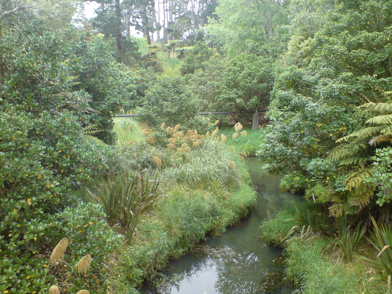 Oakley Creek in Auckland City, New Zealand.